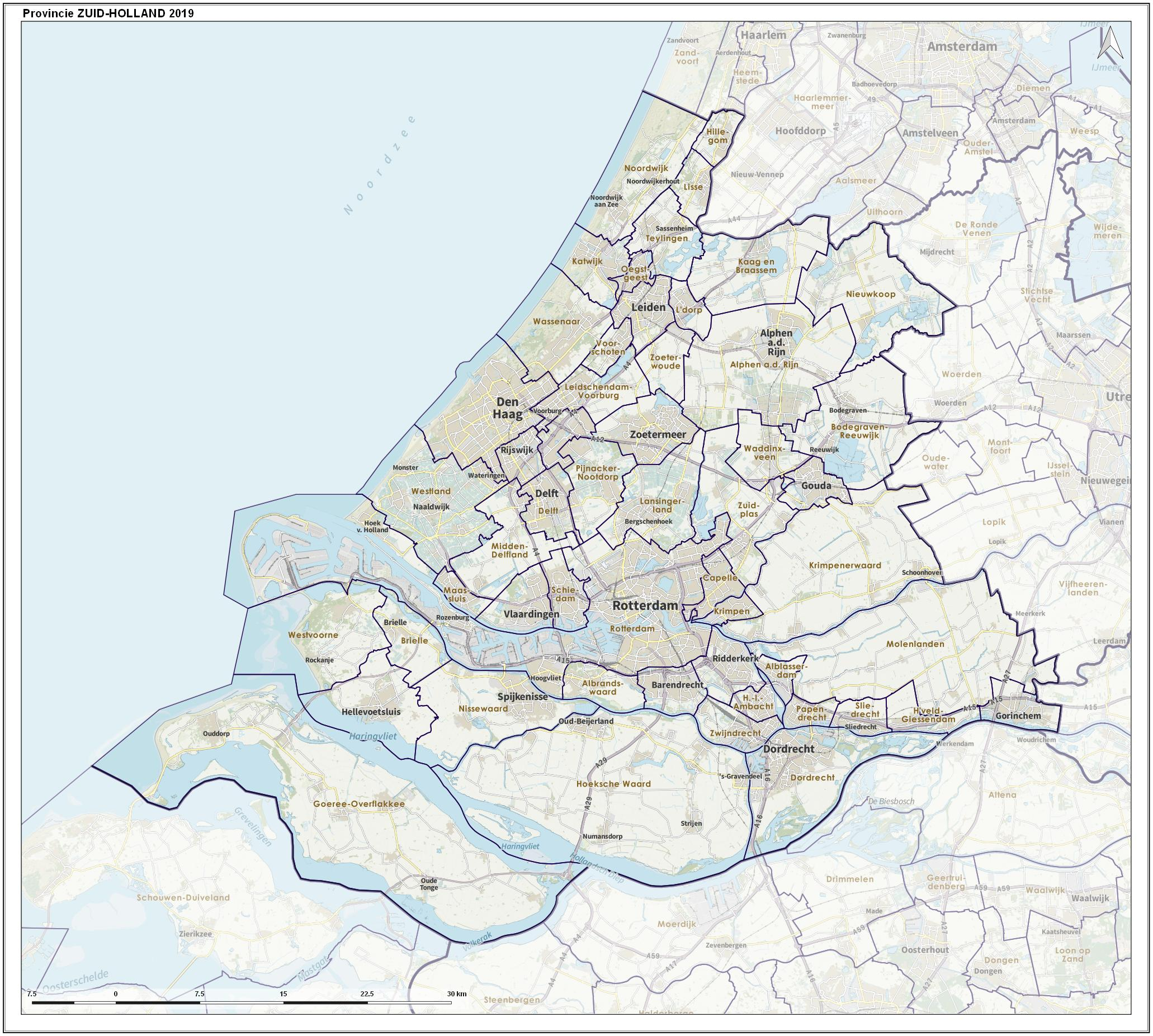 Overview map of the province, including municipal borders, largest places and major infrastructure.